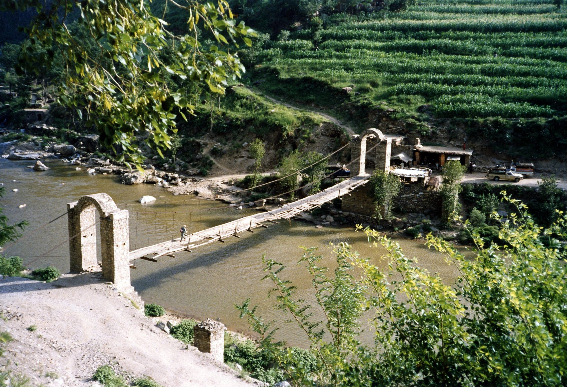 Footbridge on the Indus River, Pakistan